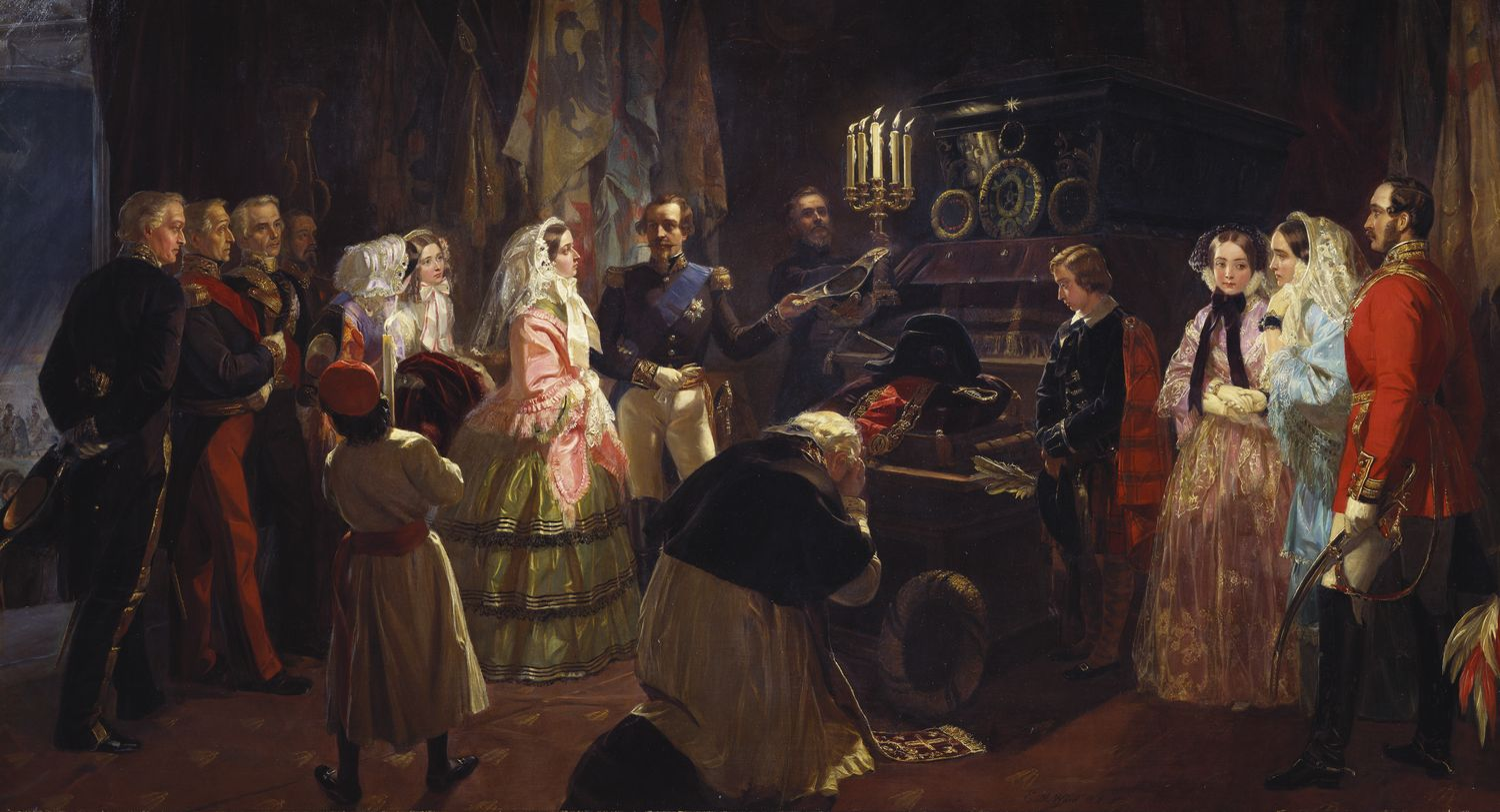 Queen Victoria at the Tomb of Napoleon, 24 August 1855